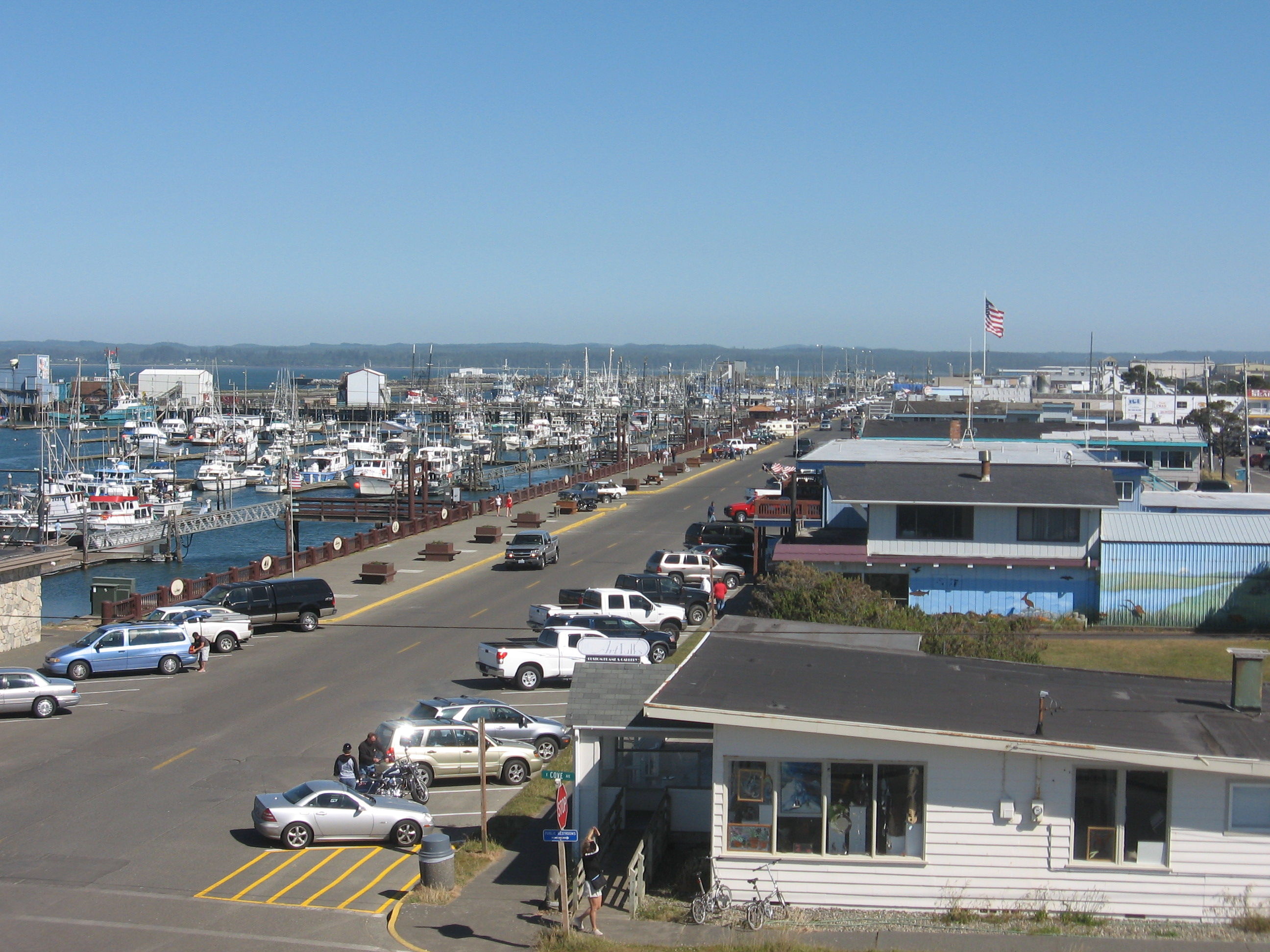 The marina district of Westport, Washington, taken from a watchtower facing Gray's Harbor.